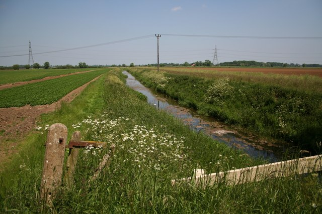 River Slea. Looking north from Papermill Lane bridge